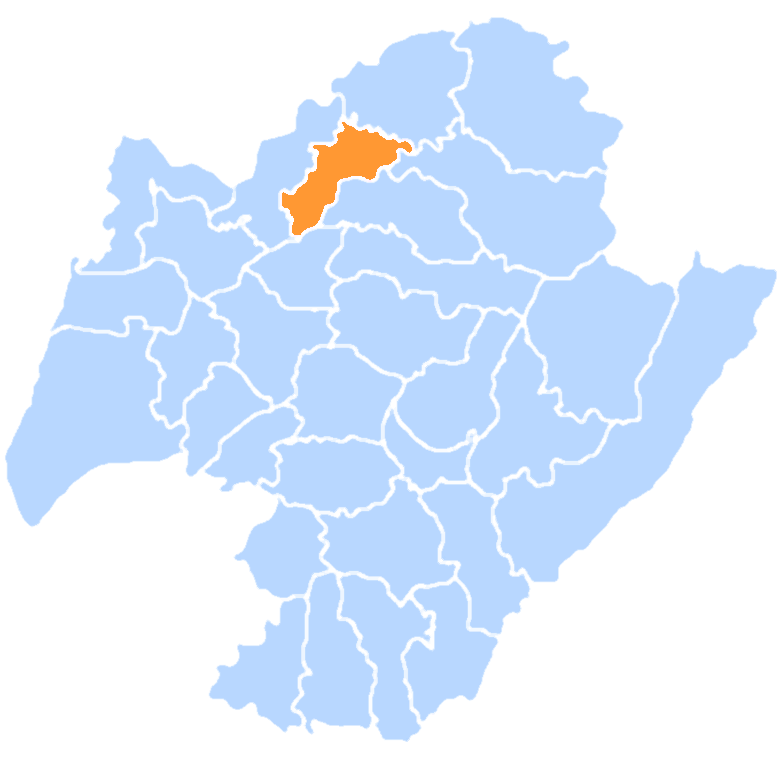 Sinying, Tainan Conuty, Taiwan